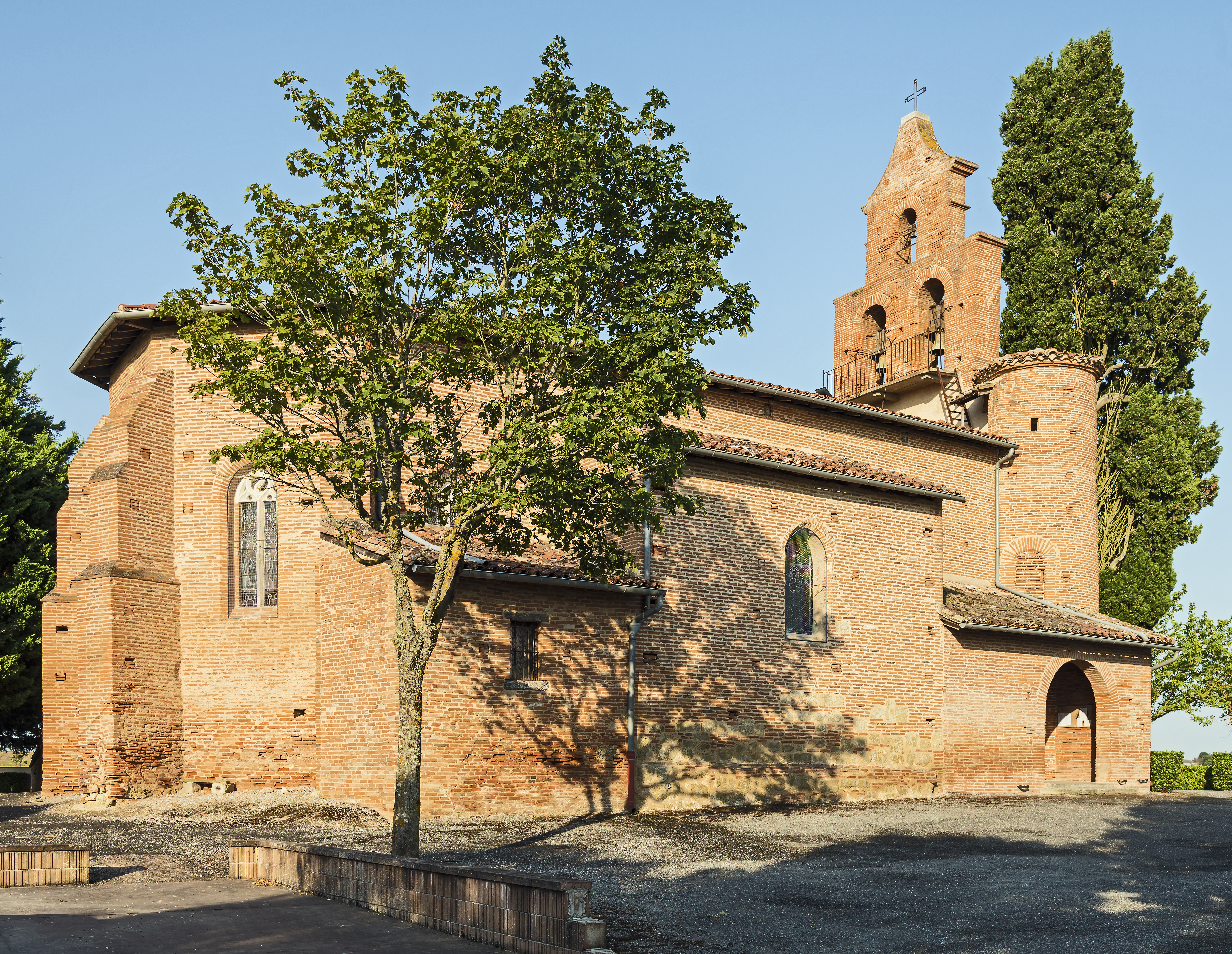 Saint-Pierre, Haute-Garonne, France. The Church of St. Martin.